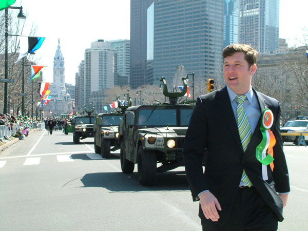 Rep. Patrick Murphy walks in the 2007 Philadelphia St. Patrick's Day Parade.